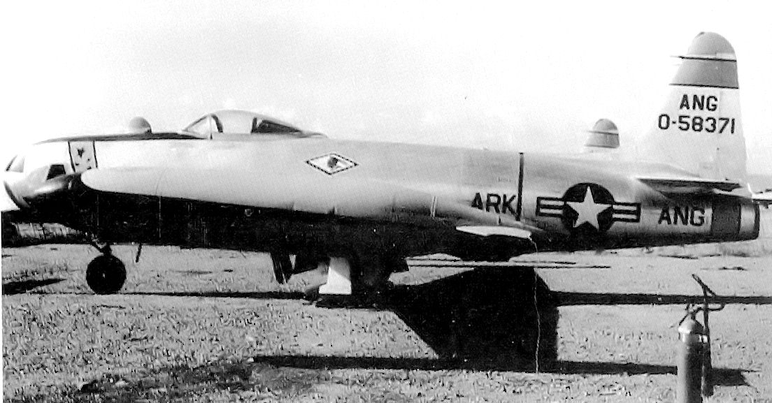 184th Tactical Reconnaissance Squadron Lockheed RF-80A-5-LO Shooting Star 45-8371